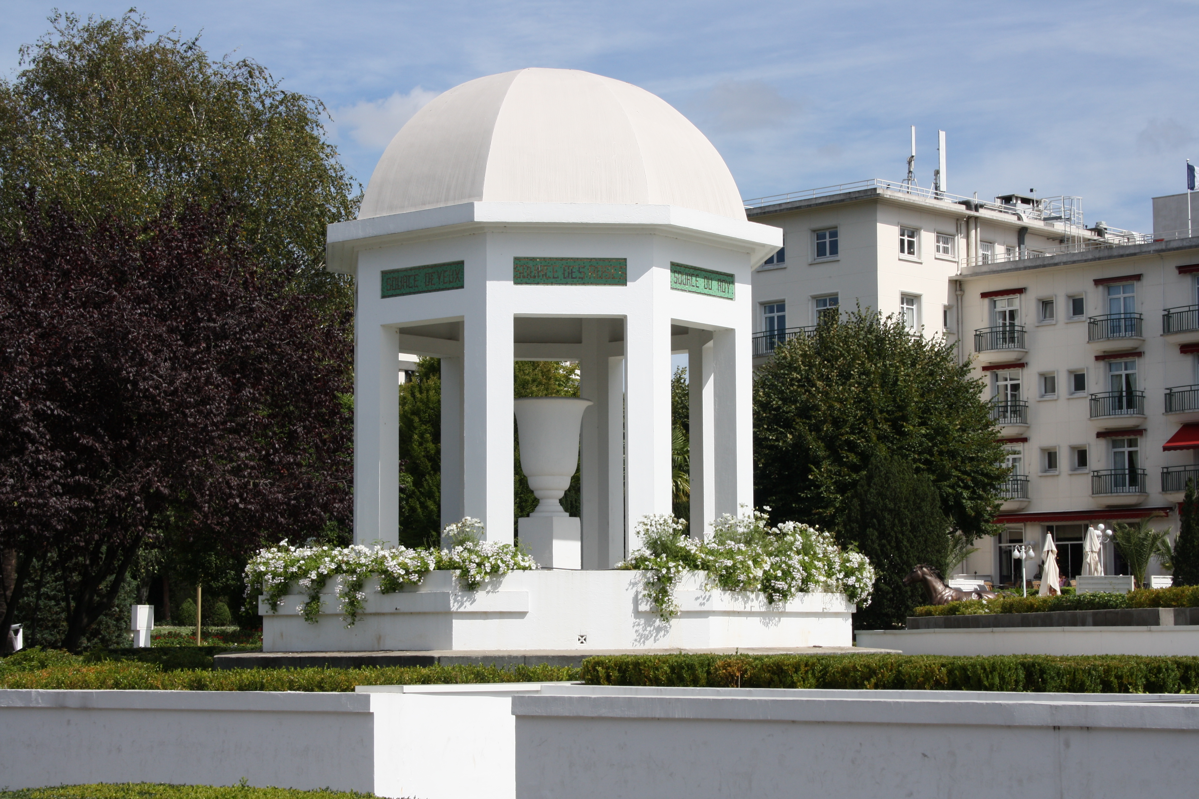 Enghien-les-Bains, France.